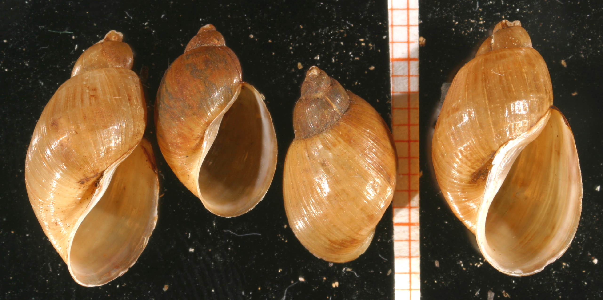 Photo of Radix peregra. Scale in mm. Locality: Germany: Bayern, near Tittling. Date: ?.